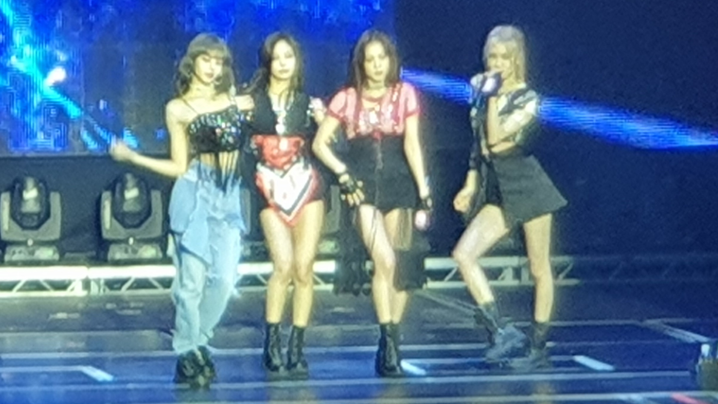 Blackpink Amsterdam concert 2019 WORLD TOUR with KIA [IN YOUR AREA]